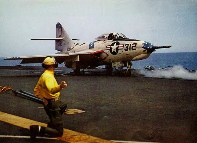 A U.S. Navy Grumman F9F-8B Cougar from attack squadron VA-76 Spirits about to be launched from the aircraft carrier USS Forrestal (CVA-59), in 1957. VA-76 was assigned to Carrier Air Group 1 (CVG-1) aboard the Forrestal for a deployment to the Mediterranean Sea from 15 January to 22 July 1957.